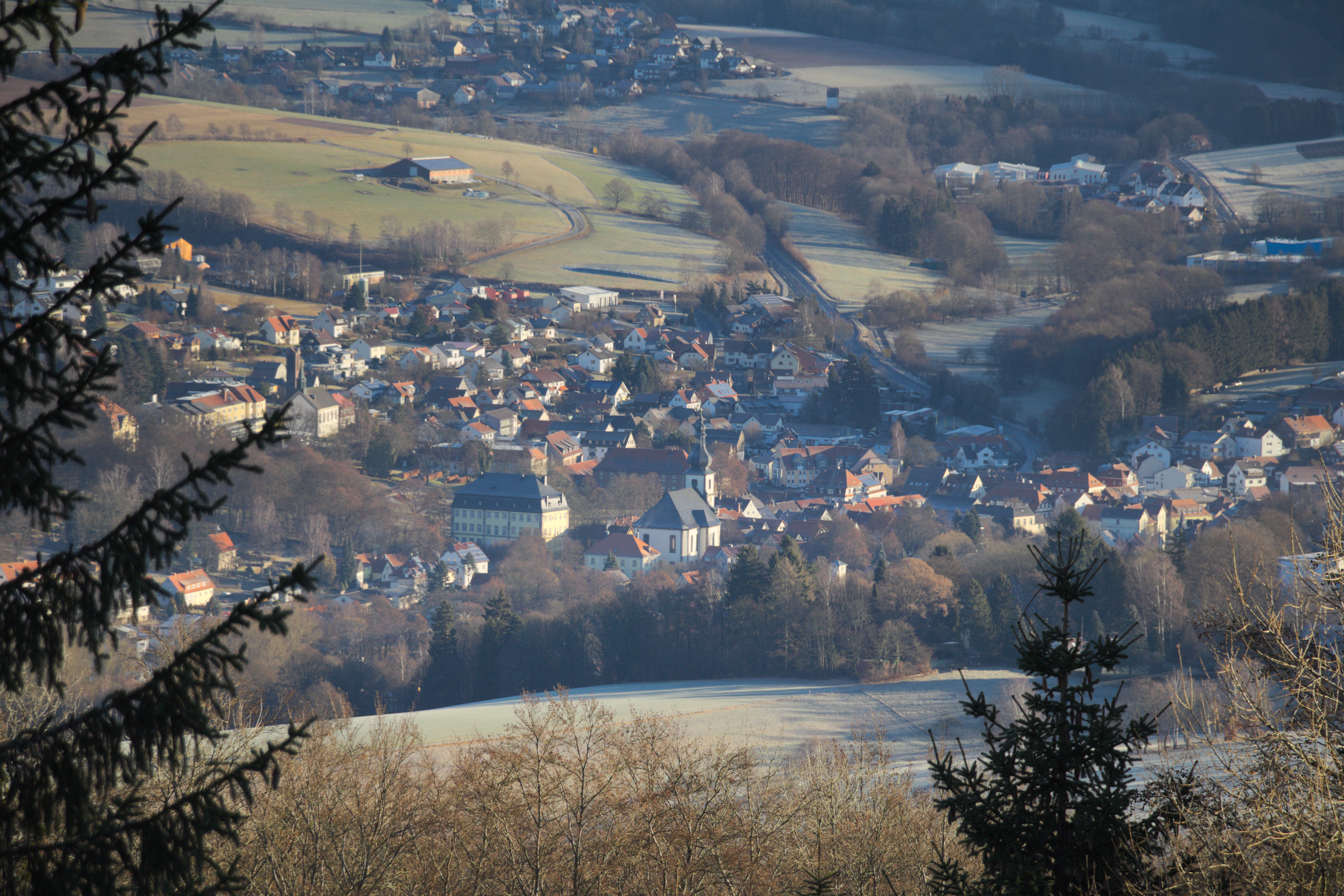 Gersfeld (seen from the Mount Gr. Nalle), Gersfeld, Hesse, Germany